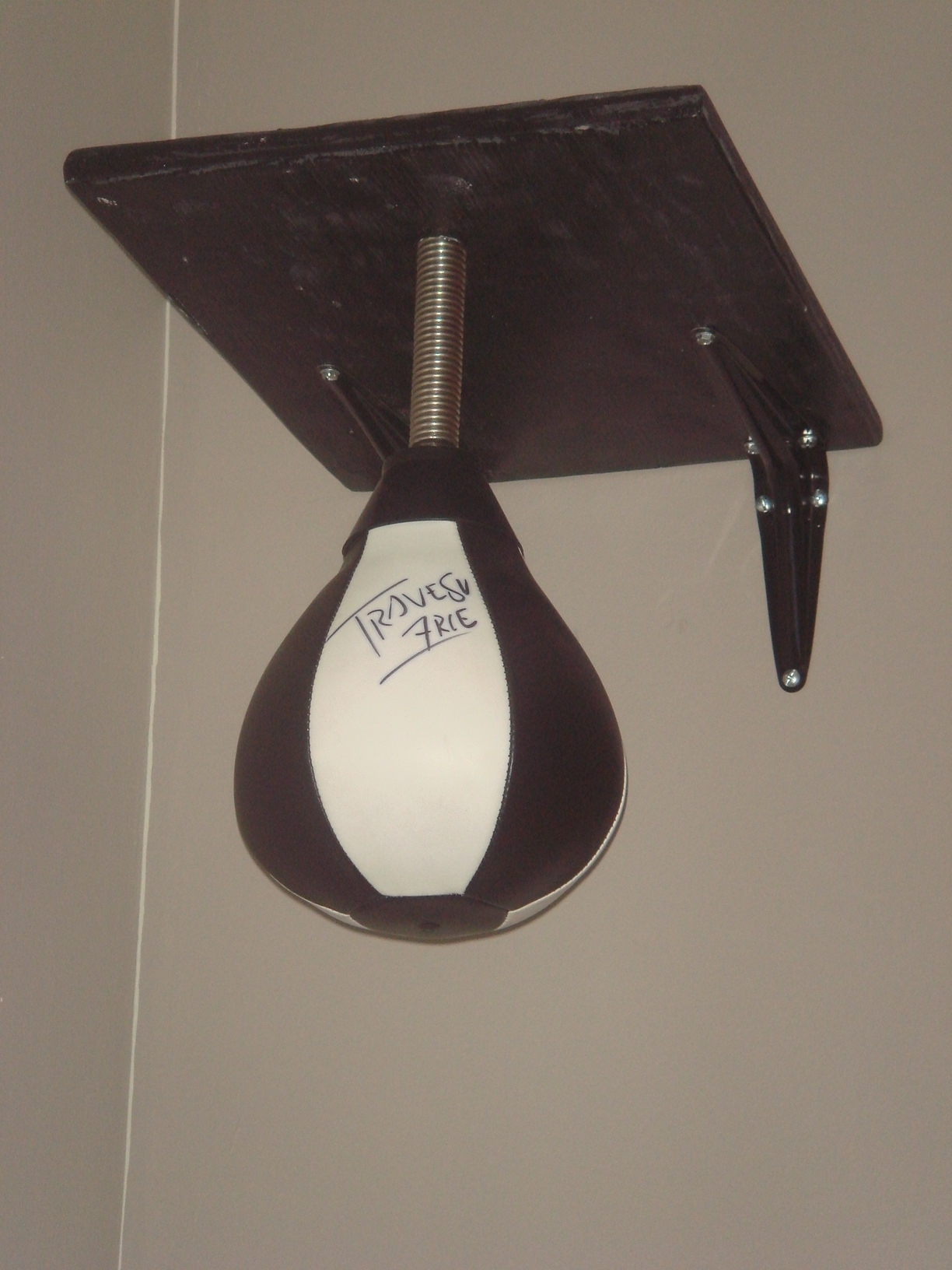 This is a speed bag used by boxers to train by hitting it quickly building up stamina and speed.